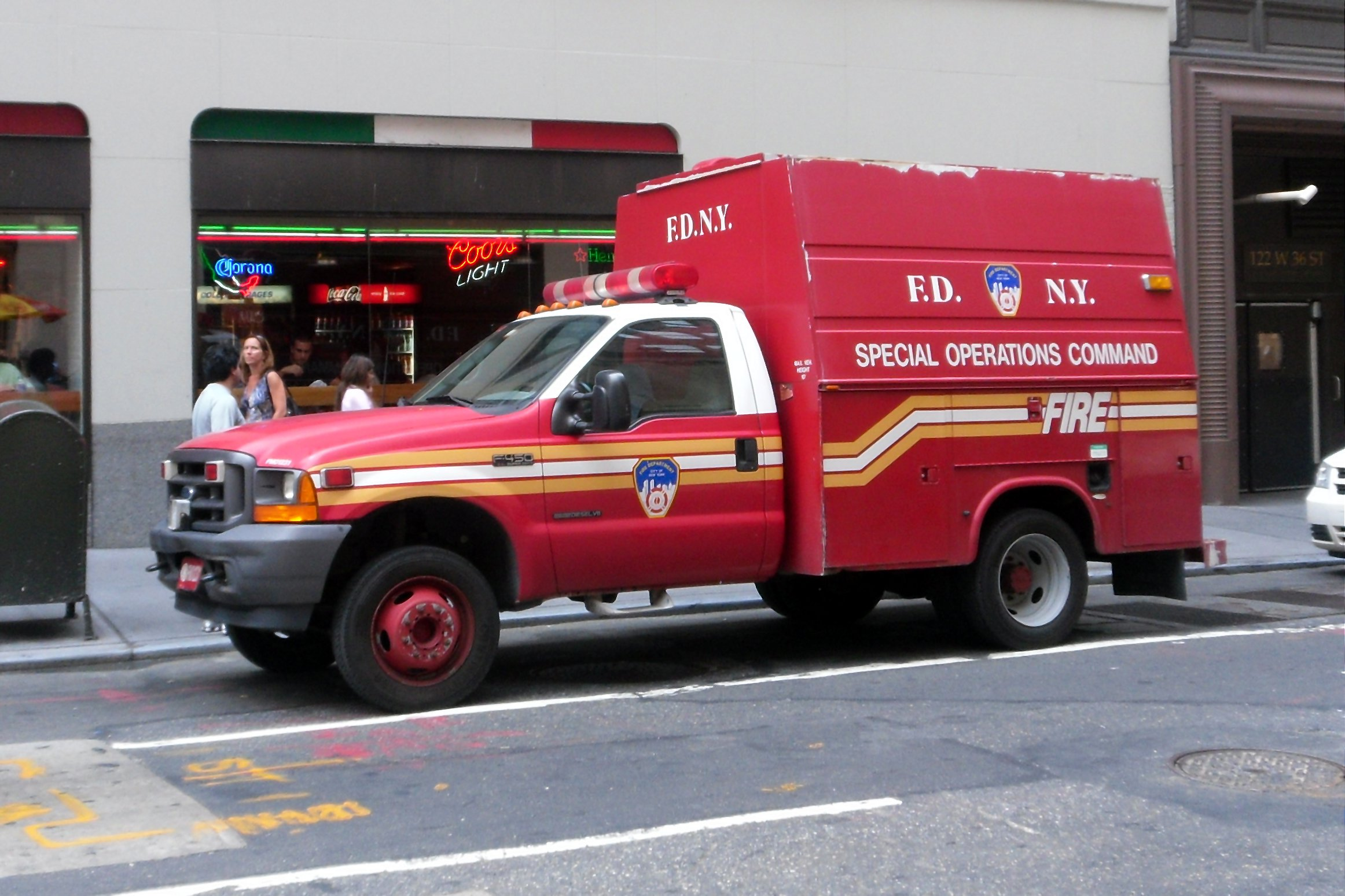 NYc fire truck